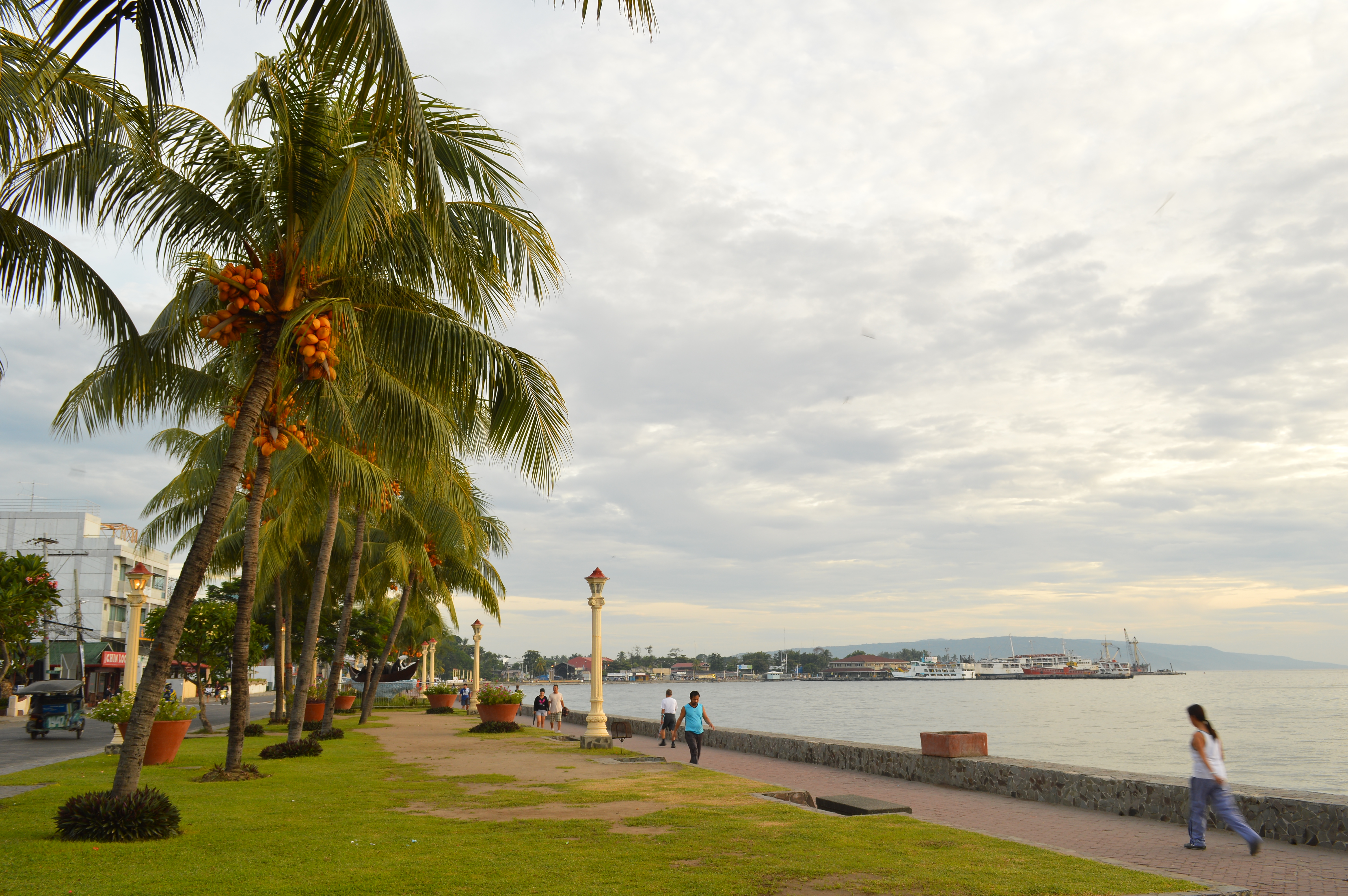 Rizal Boulevard, Dumaguete, Phillipines